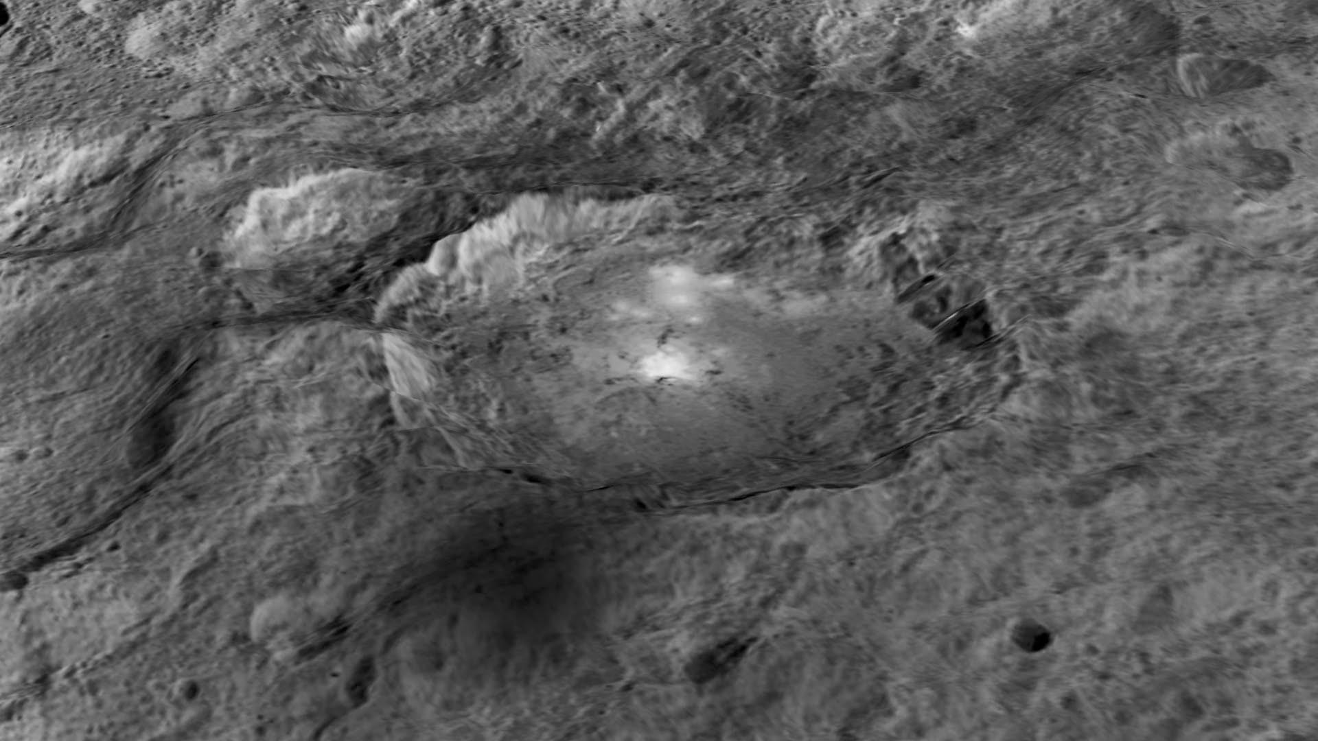 PIA19617: Occator Crater: Enhanced View This frame from an animation from NASA's Dawn spacecraft shows intriguing bright spots on Ceres lie in a crater named Occator, which is about 60 miles (90 kilometers) across and 2 miles (4 kilometers) deep. Target Name: Ceres Is a satellite of: Dwarf Planet Mission: Dawn Spacecraft: Dawn Instrument: Framing Camera Product Size: 1920 x 1080 pixels (w x h) Produced By: JPL Full-Res TIFF: PIA19617.tif (1.858 MB) Full-Res JPEG: PIA19617.jpg (188.7 kB) Click on the image above to download a moderately sized image in JPEG format (possibly reduced in size from original) Original Caption Released with Image: The intriguing brightest spots on Ceres lie in a crater named Occator, which is about 60 miles (90 kilometers) across and 2 miles (4 kilometers) deep. This image comes from an animation, shown in PIA19619, generated using data from NASA's Dawn spacecraft. Vertical relief has been exaggerated by a factor of five. Exaggerating the relief helps scientists understand and visualize the topography much more easily, and highlights features that are sometimes subtle. Dawn's mission is managed by JPL for NASA's Science Mission Directorate in Washington. Dawn is a project of the directorate's Discovery Program, managed by NASA's Marshall Space Flight Center in Huntsville, Alabama. UCLA is responsible for overall Dawn mission science. Orbital ATK, Inc., in Dulles, Virginia, designed and built the spacecraft. The German Aerospace Center, the Max Planck Institute for Solar System Research, the Italian Space Agency and the Italian National Astrophysical Institute are international partners on the mission team. For a complete list of acknowledgments, For more information about the Dawn mission, visit